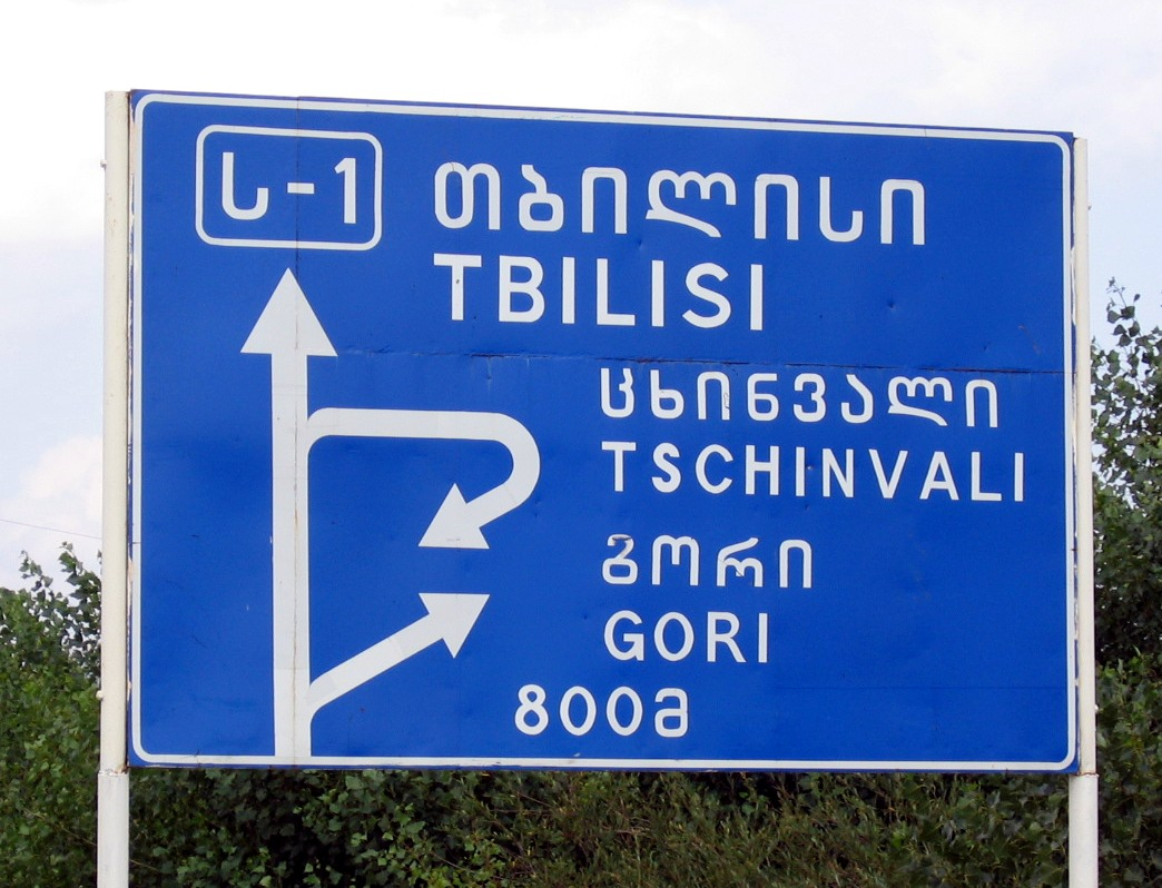 Modern street sign in Georgian and Latin alphabets.